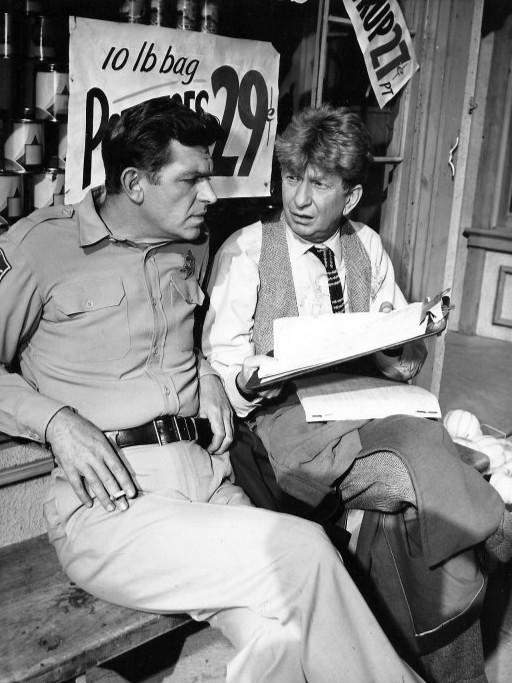 Photo of Andy Griffith and Sterling Holloway from the television program The Andy Griffith Show. Holloway plays a new Mayberry merchant who has trouble getting his business off the ground.